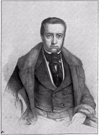 Portrait photograph of Wilhelm Hennemann, German physician in Schwerin.